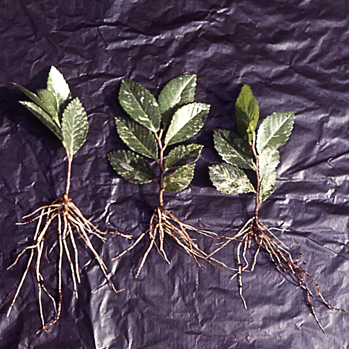 Rooted green cutings of Ulmus japonica 'Variegata'